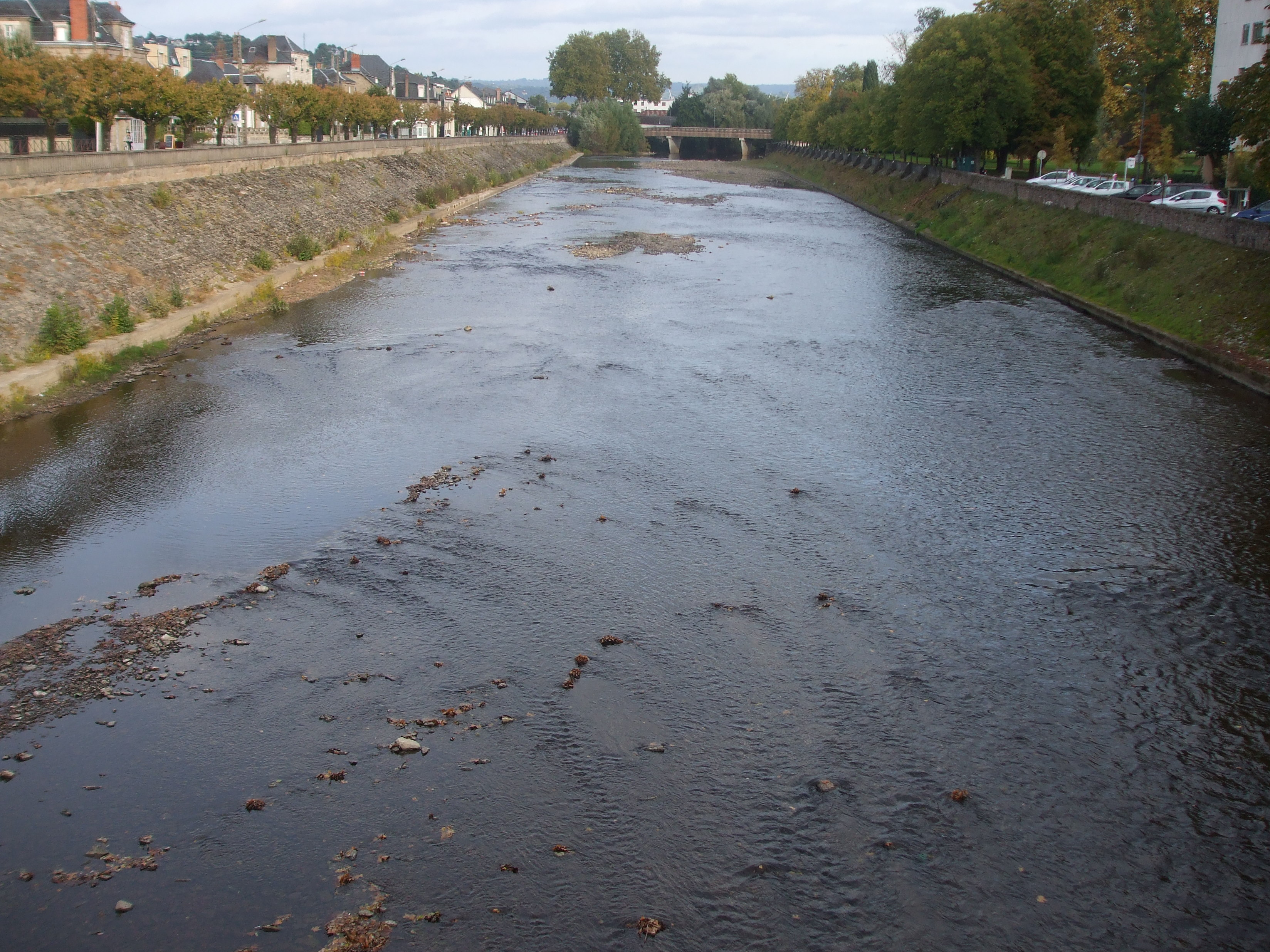 The Corrèze river, from cardinal bridge, Brive la Gaillarde, France